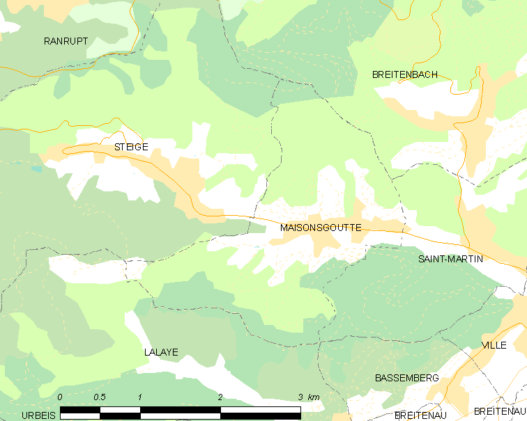 Map of French municipality